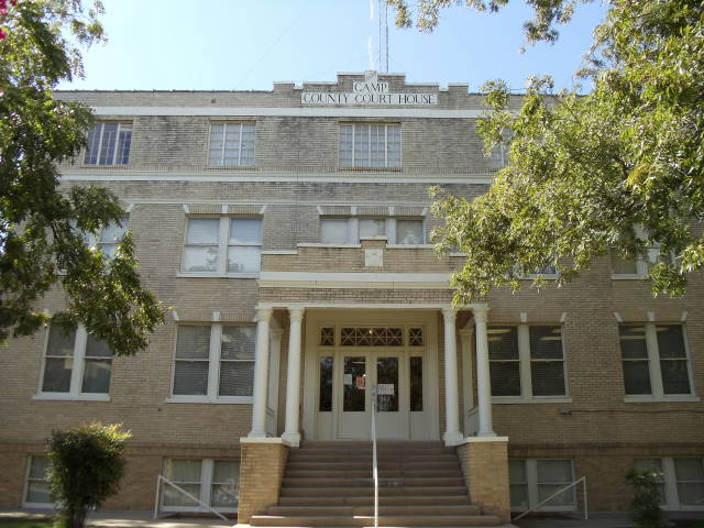 Camp County Courthouse